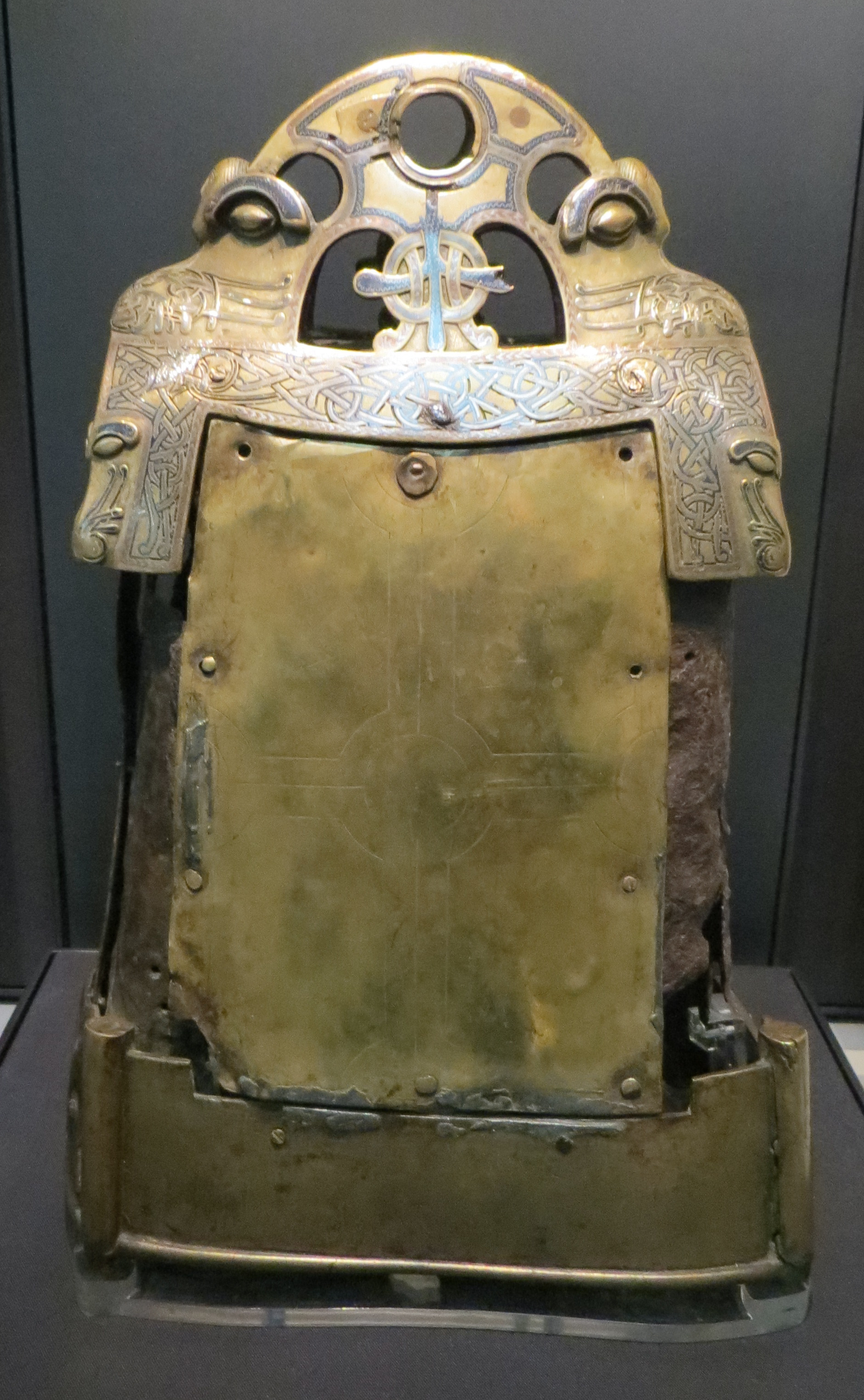 St Cuileain's Bell in the British Museum